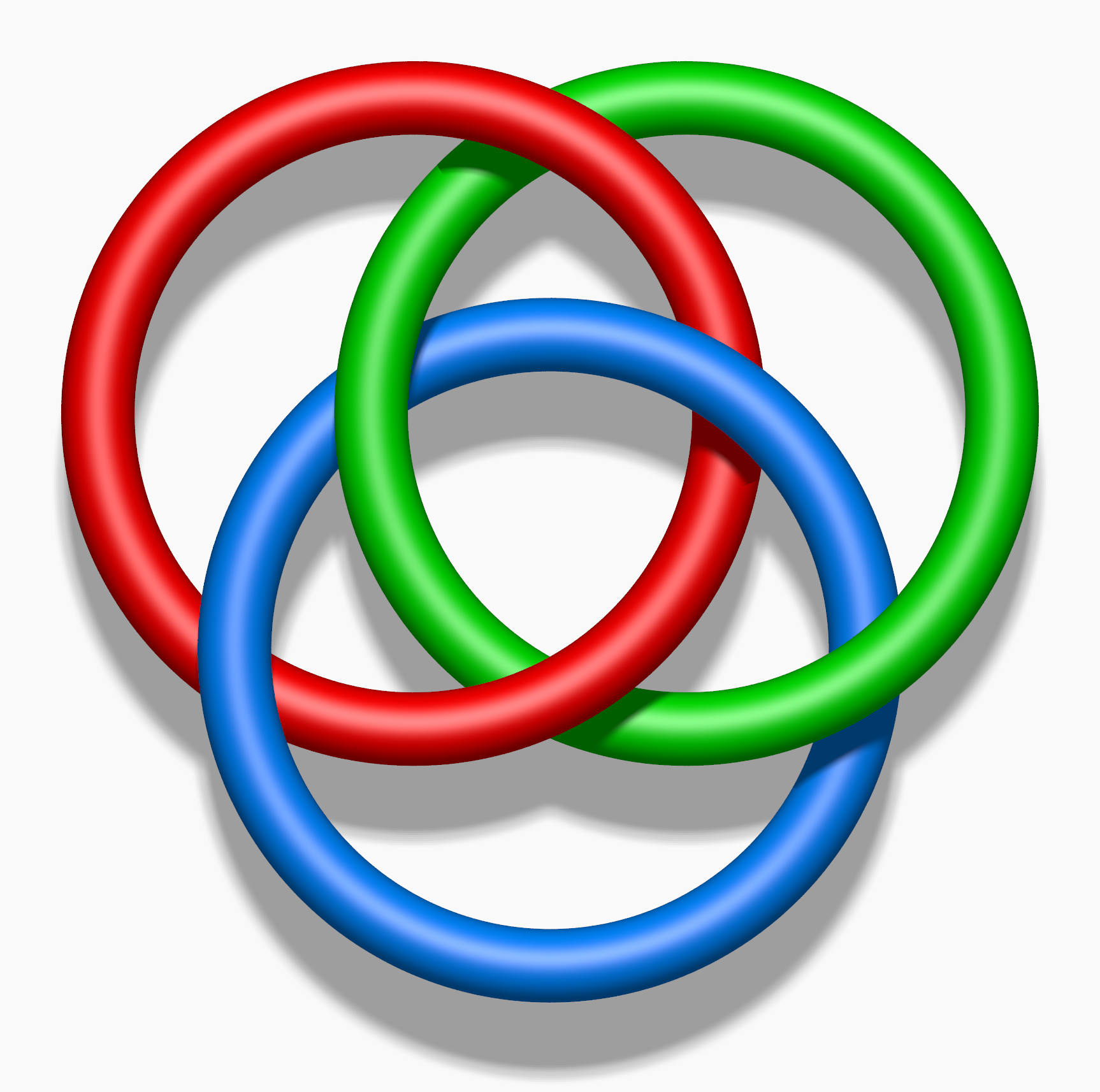 The Borromean rings. This picture is an optical illusion: three flat circles cannot actually be connected in this way.